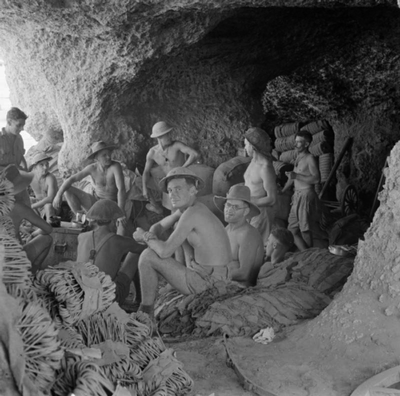 The 'Rats of Tobruk' - some of the 15,000 men of General Morshead's 9th Australian Division shelter in caves during an air raid during the siege of Tobruk. After six months besieged in the vital supply port the Australians were evacuated by sea and relieved by fresh troops. 823 men had been killed, 2214 wounded and 700 captured